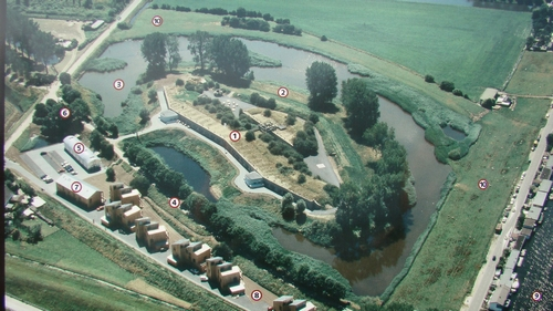 Photo taken from the public informationboard on the frontside of the fort, showing a aerialphoto of the fort.